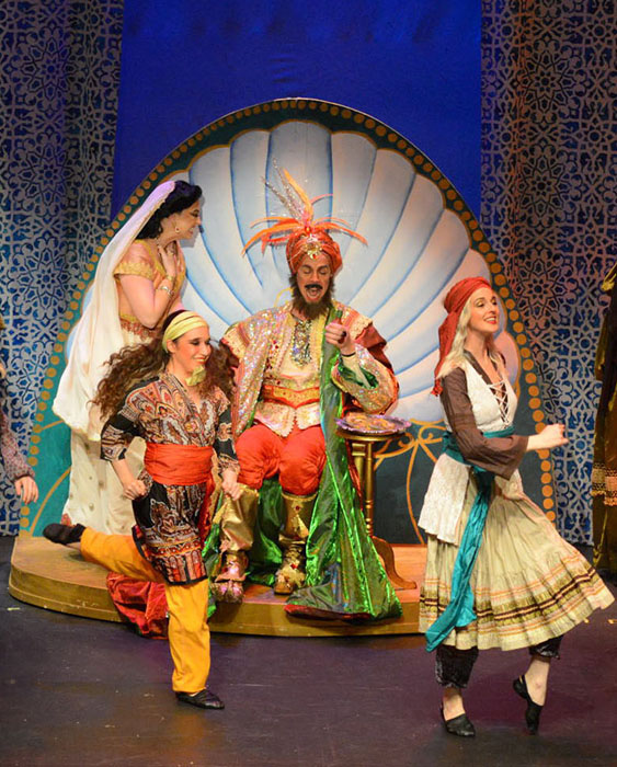 The Pasha sings during a public performance of the Tabasco opera revival, New Orleans, January 2018